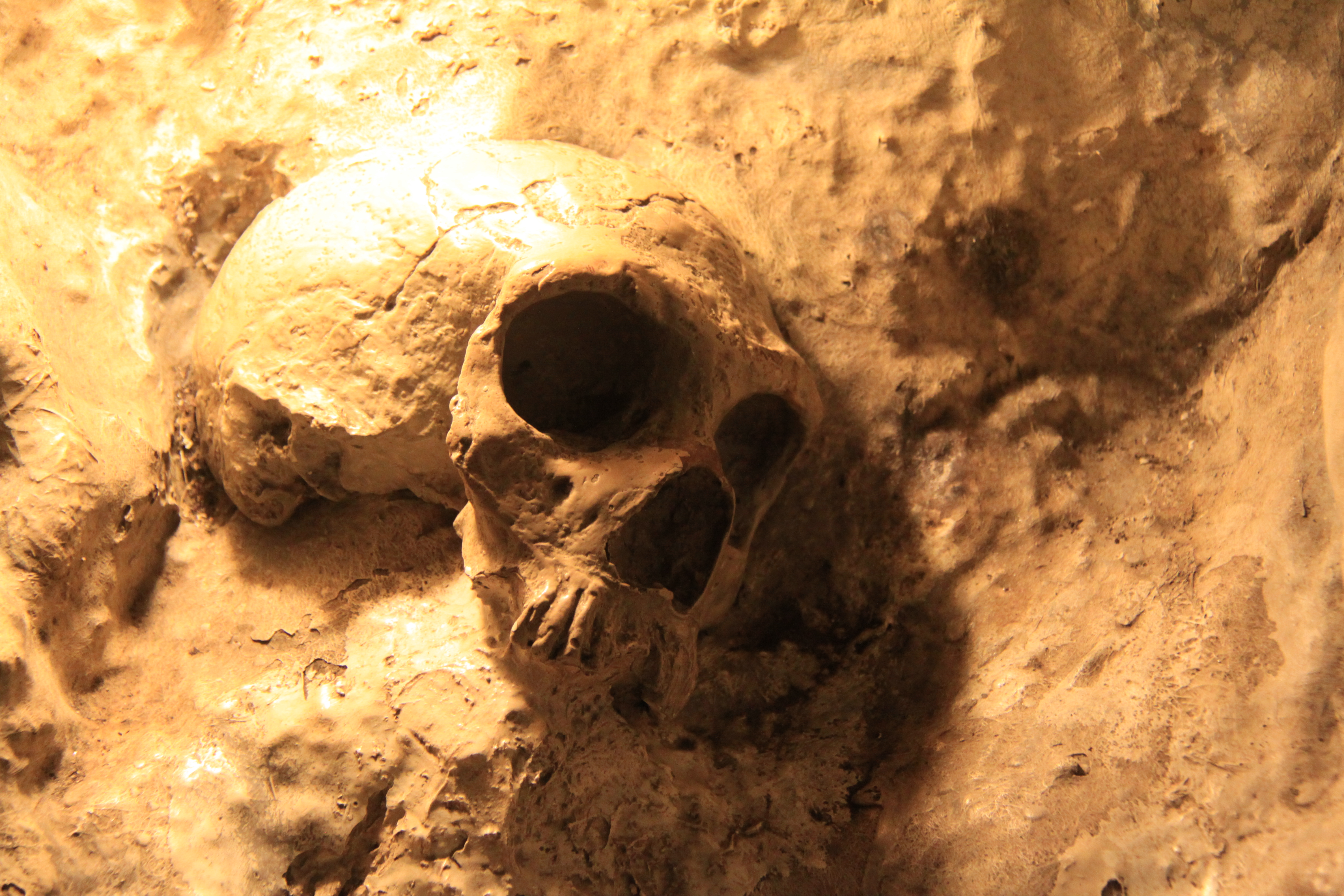 Replica of Neanderthal Skull, Gibraltar 1, in St. Michaels Cave museum, Gibraltar.